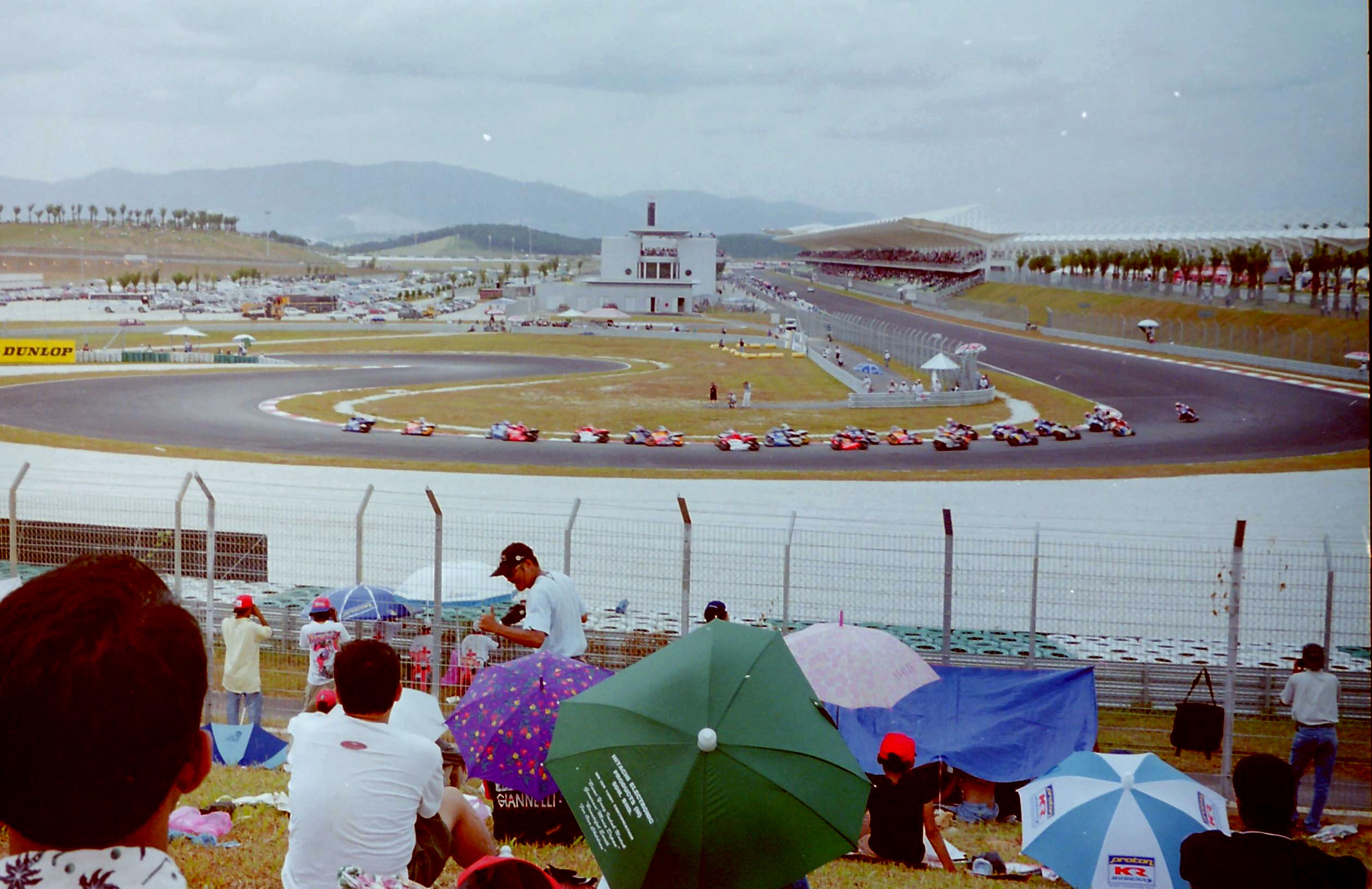 The 1999 Malaysian motorcycle Grand Prix.